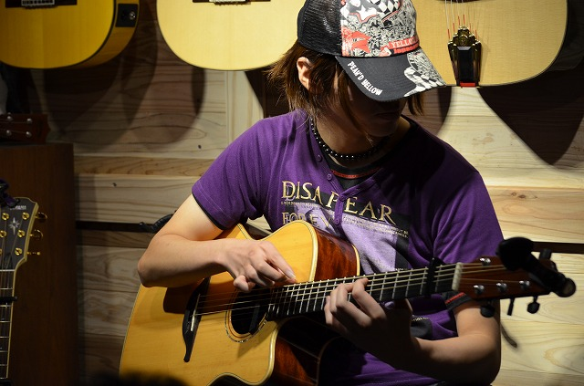 T-cophony performing at Guitar shop TANTAN, Japan, on October 19, 2013. Photo by guitarshoptantan.